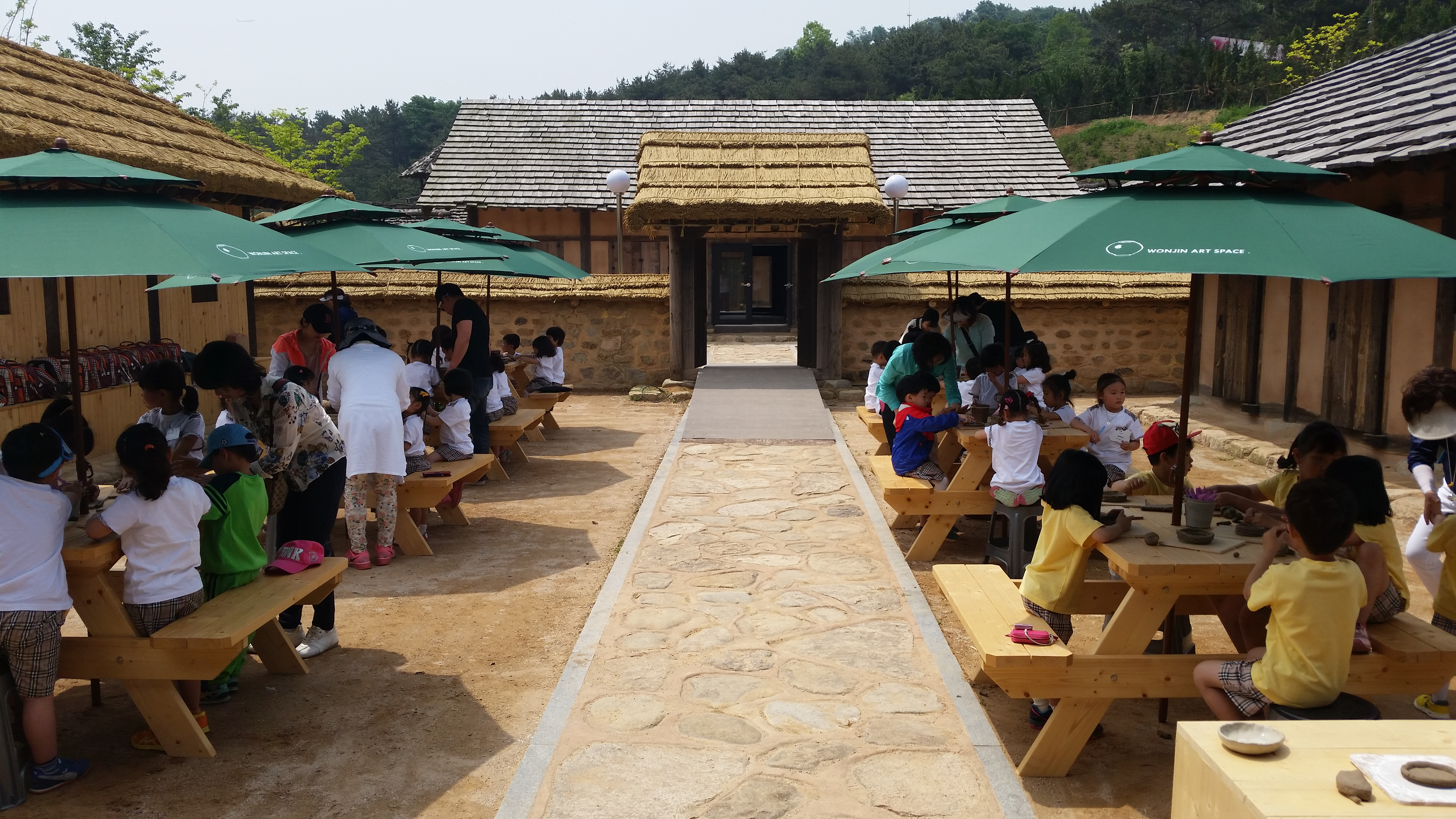 김해가야테마파크 도자기체험관에 도자기 체험학습을 하고 있는 어린이들.